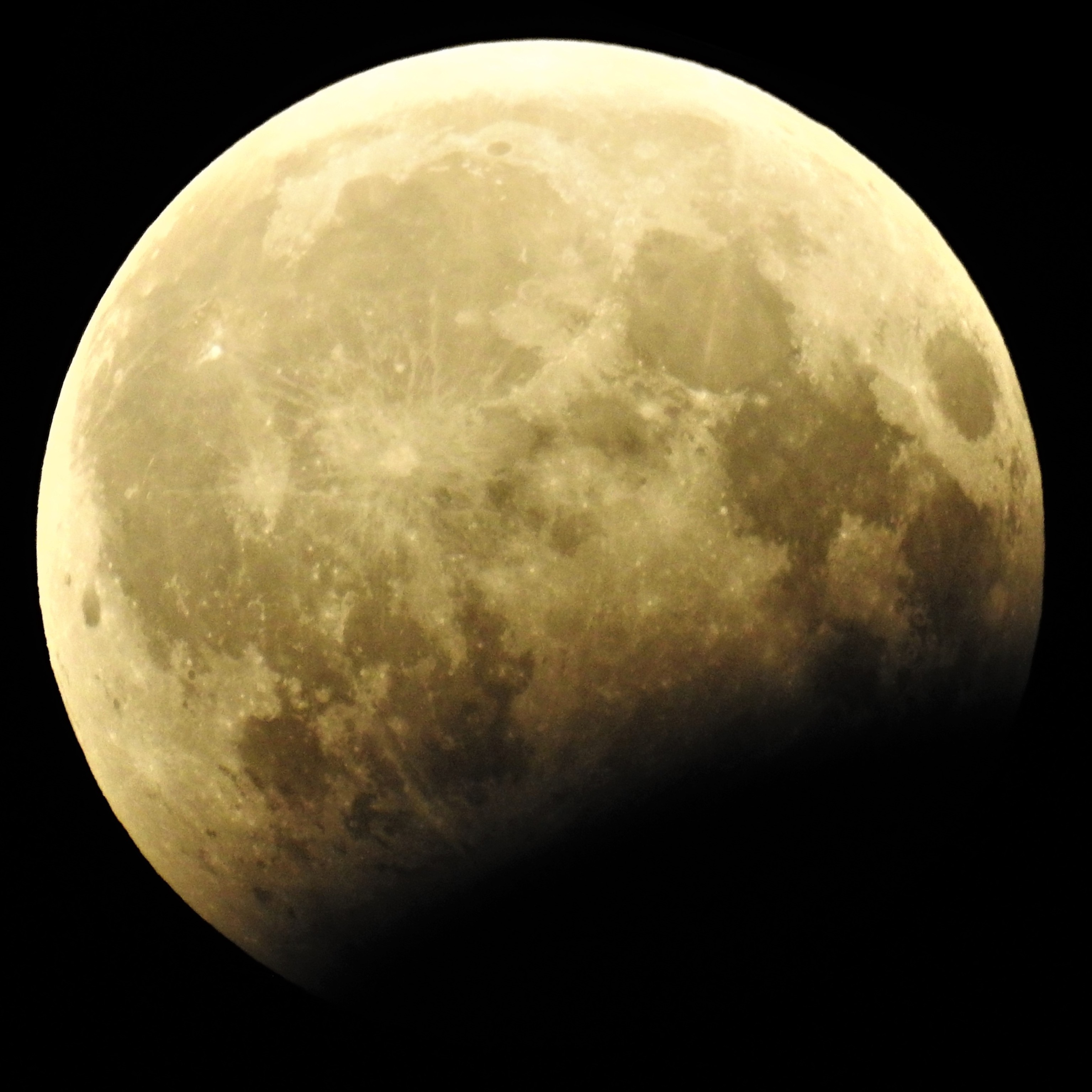 Partial Lunar eclipse of 2017 August 7, as seen from Kuwait Cropped and rotated from File:Lunar eclipse of 2017 August 7.jpg